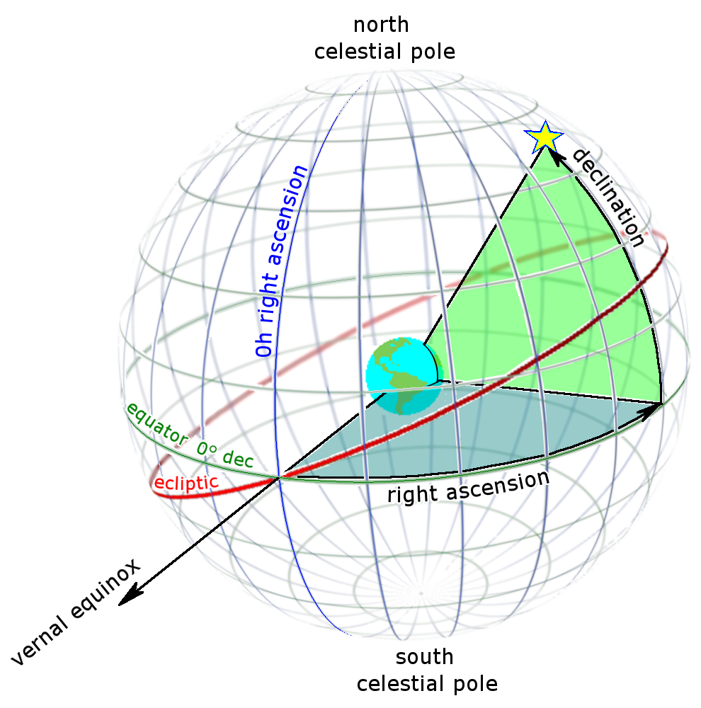 Diagram of a star's right ascension and declination as seen from outside the celestial sphere. Depicted are the star, the Earth, lines of RA and dec, the vernal equinox, the ecliptic, the celestial equator, and the celestial poles.